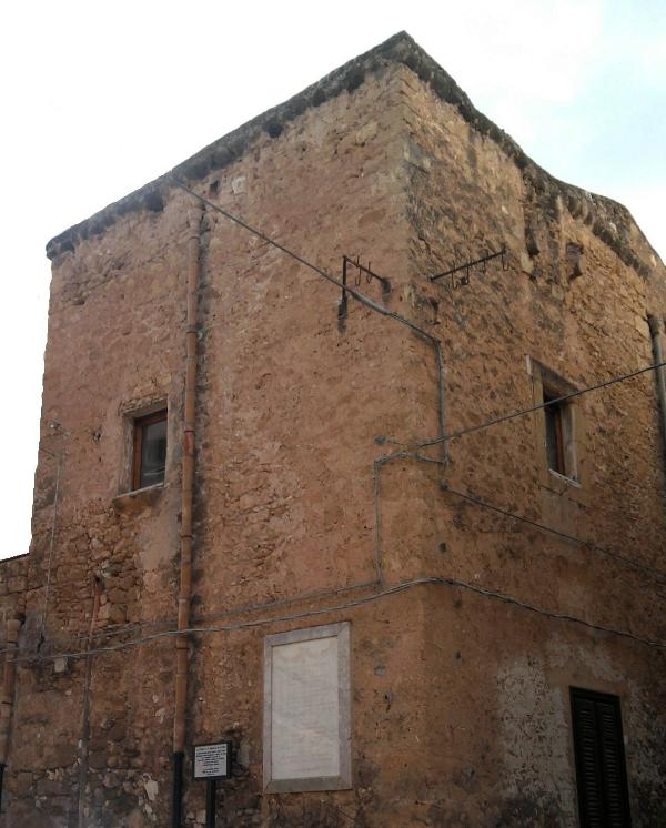 Torre Ferrante a Bagheria (Sicily)